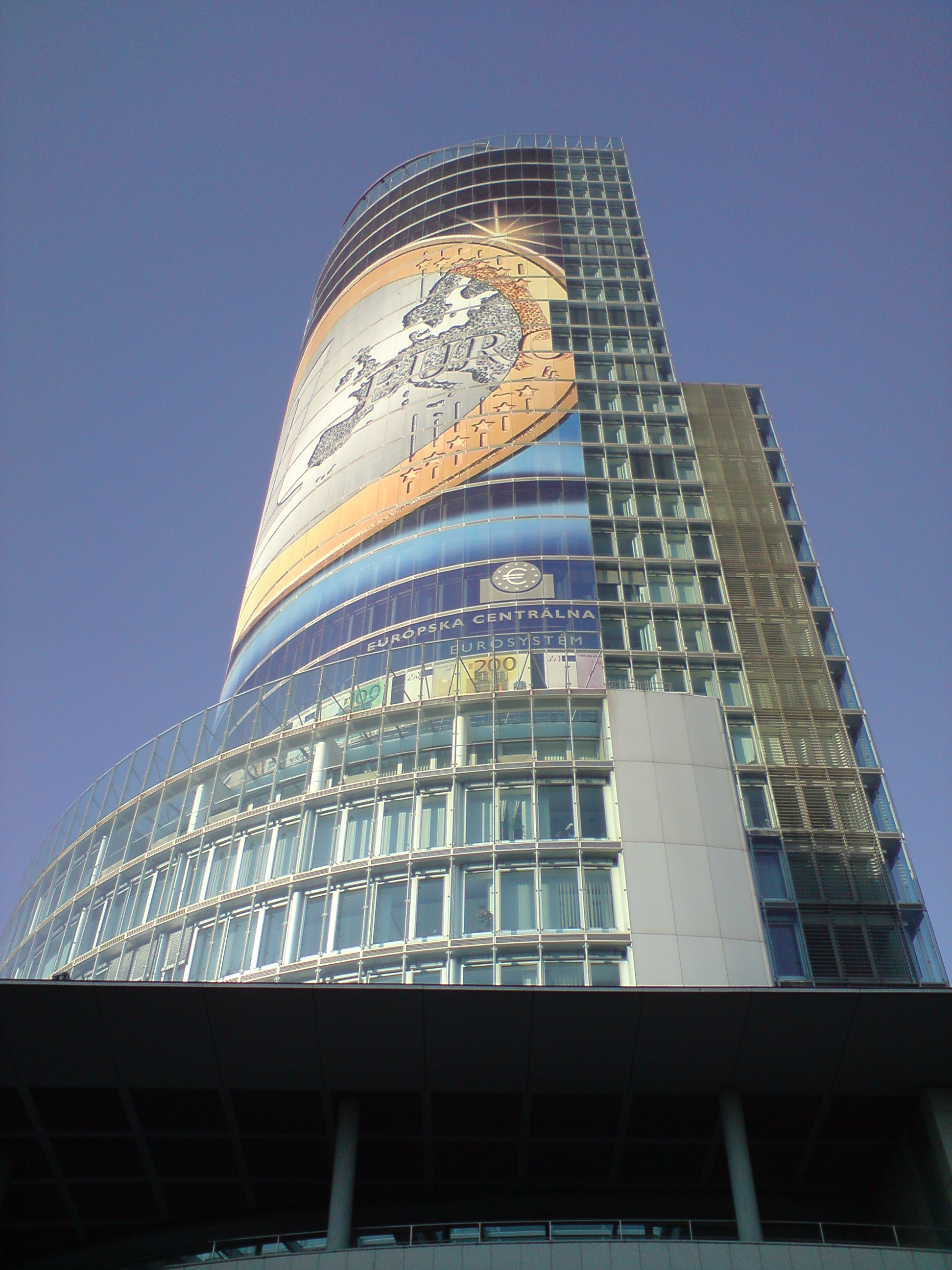 National bank of Slovakia